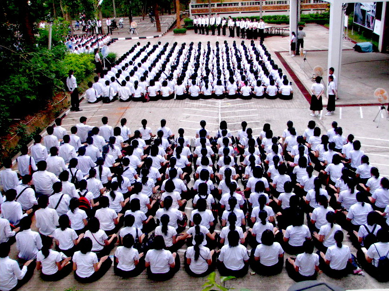 ceremonia de los himnos de facultad